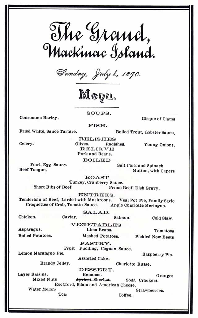 Menu from Grand Hotel (Mackinac Island) dated July 6, 1890; obtained from Grand Hotel's website.